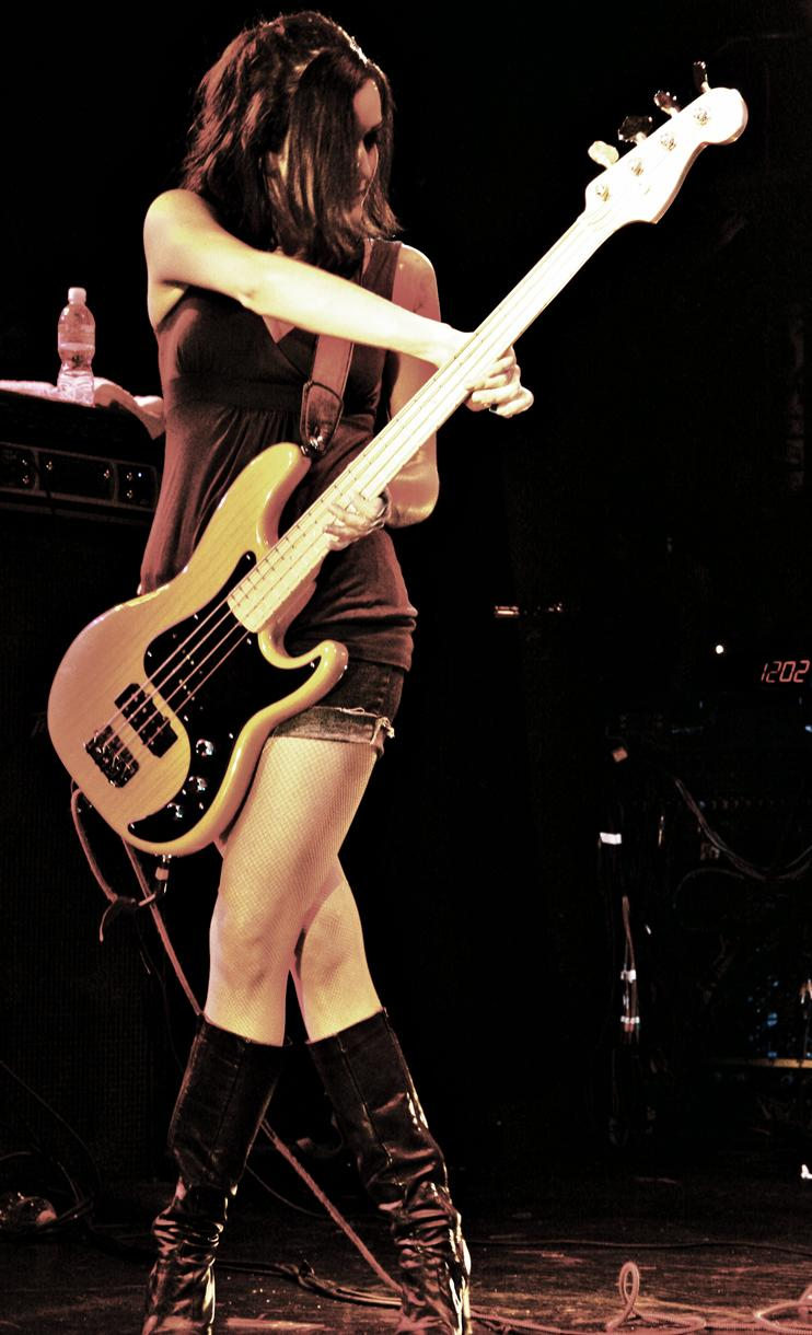 Nicole Fiorentino at The Key Club on Sunset 7/21/2007